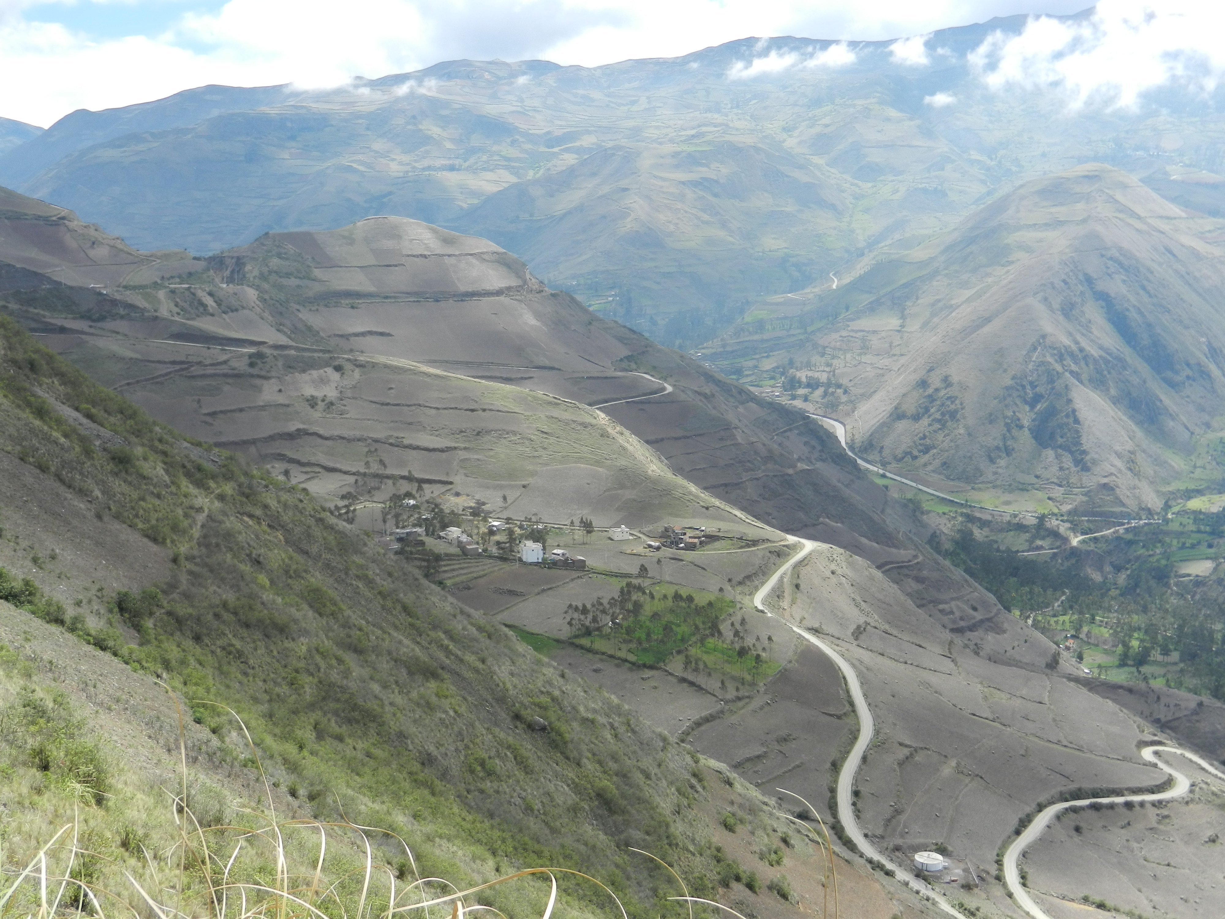 Typical landscape in the Andes - Ecuador